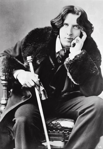 Portrait of Oscar Wilde in his favourite coat. New York.